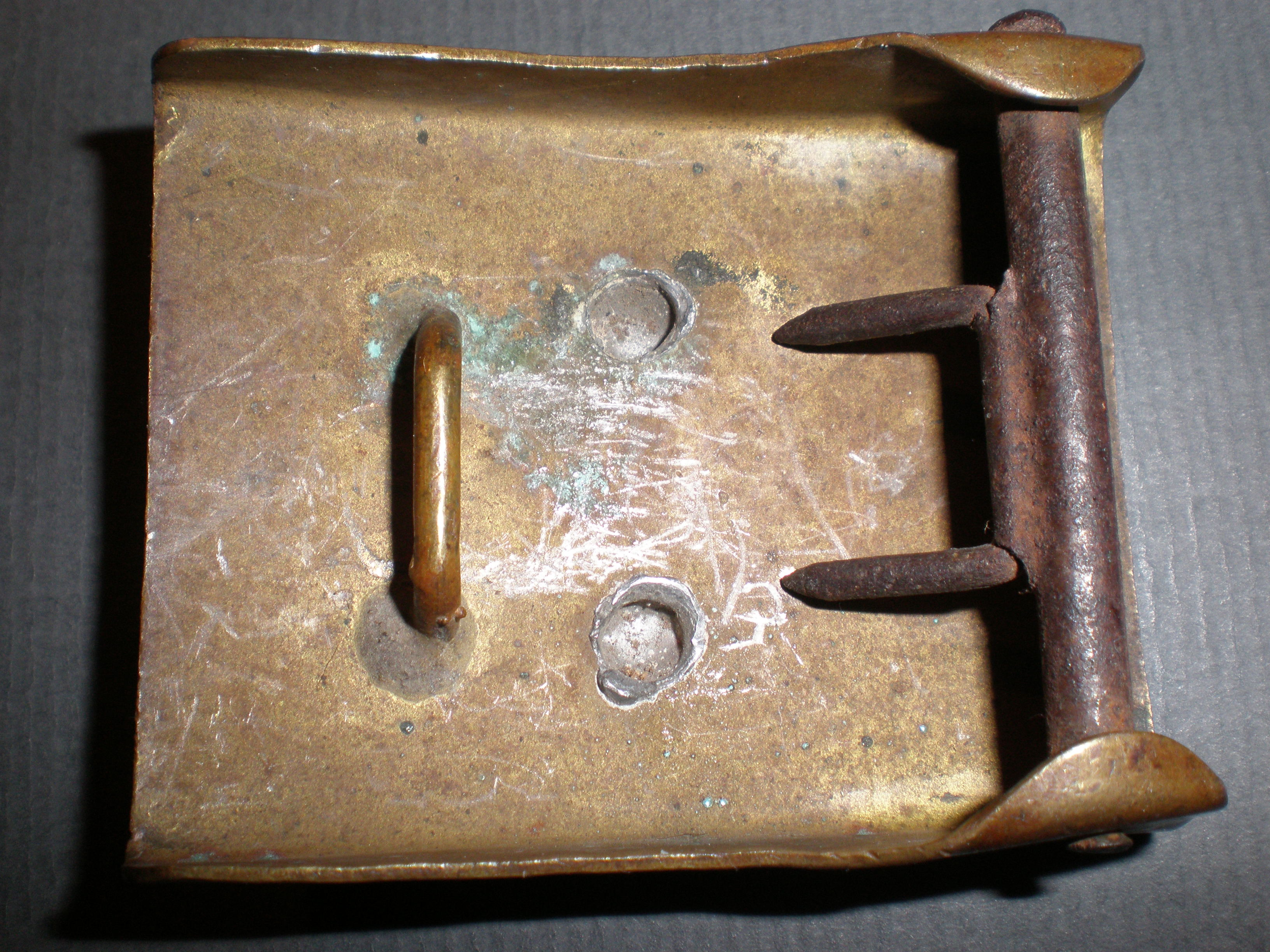 The reverse of a World War I Prussian enlisted man's belt buckle. See Image:WW I Prussian enlisted man's belt buckle front.JPG.